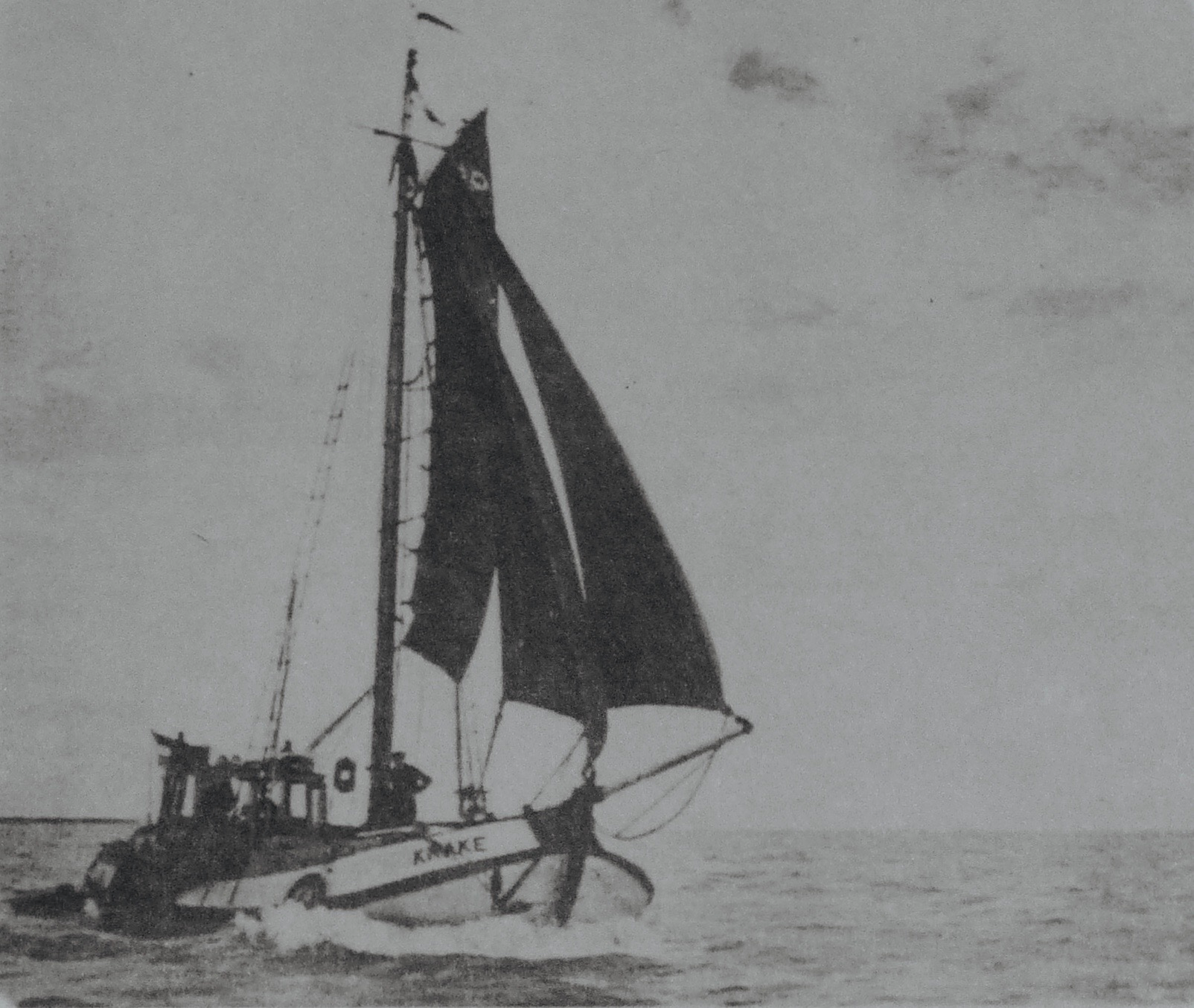 Historic auxiliary powered vessel Krake (= octopus) with identification number ZK 14 (= Zoutkamp harbour, The Netherlands) and DGIC as its call signal. This sailing ship (Dutch barge, type Blazer) originally made of oak wood is a special construction for cargo and fishery in the shallow waters of the Wadden Sea. Its flat bottom enables the ship during tidal flats to rest on the sea ground. The picture from a contemporary newspaper was made between 1934 and 1938. During this time the Krake was owned by the German author and progressive pedagogue Martin Luserke (1880–1968) who deployed the ship as his floating poet's workshop. In many harbours of The Netherlands, Germany, Denmark, South Norway and South Sweden mostly younger people visited the ship for his readings or taletelling and some even went with him and his son Dieter Luserke (1918–2005) on cruise. One of the later prominent passengers was Beate Uhse (1919–2001) who attended Schule am Meer on the German island Juist which Martin Luserke had founded in 1925.